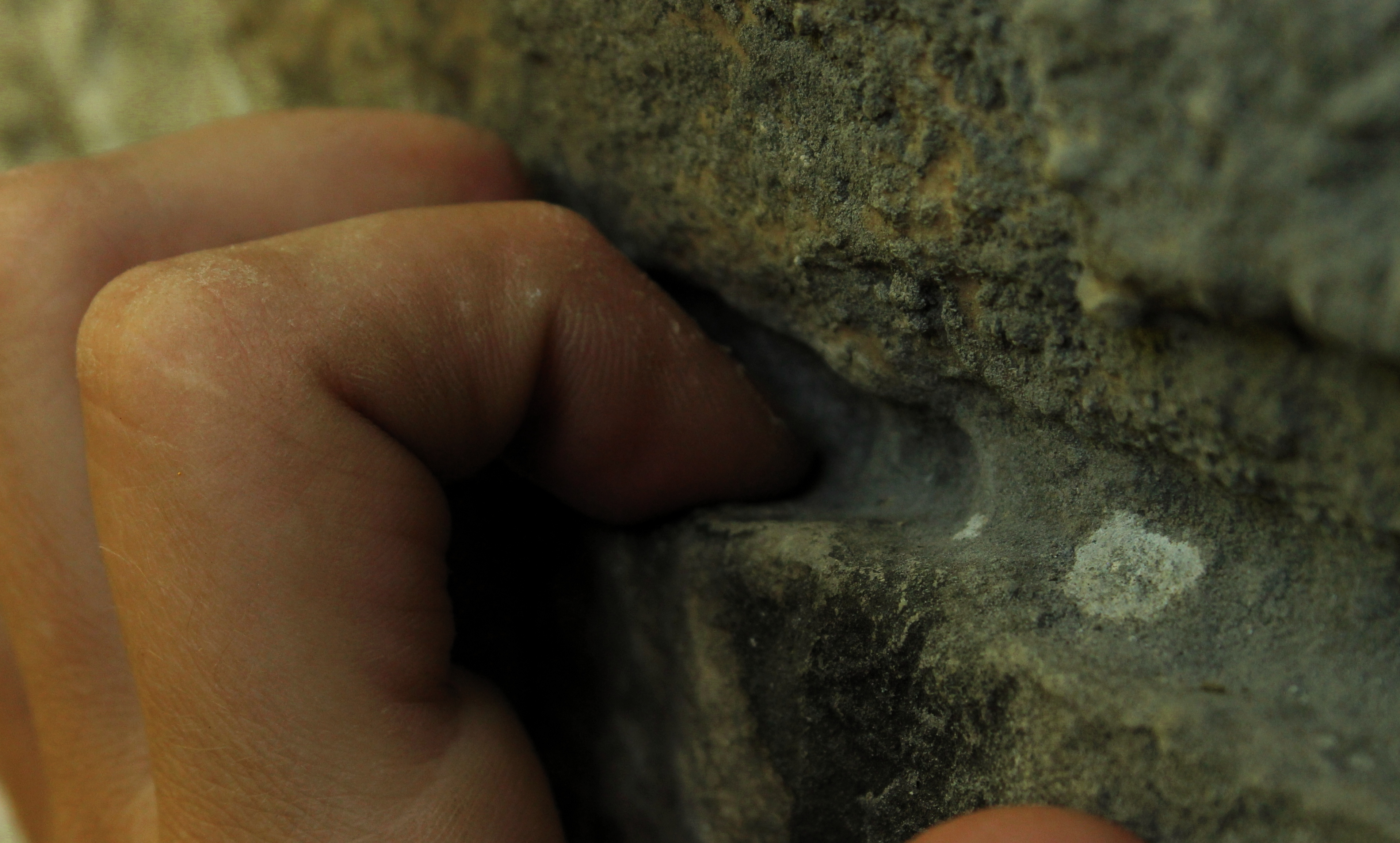 Climbing on crimps